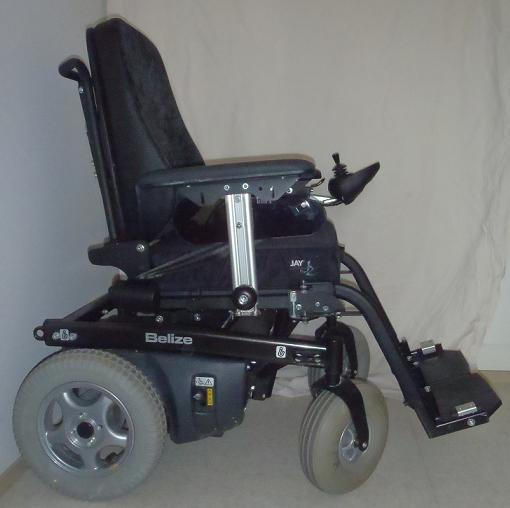 Electric-powered wheelchair Belize